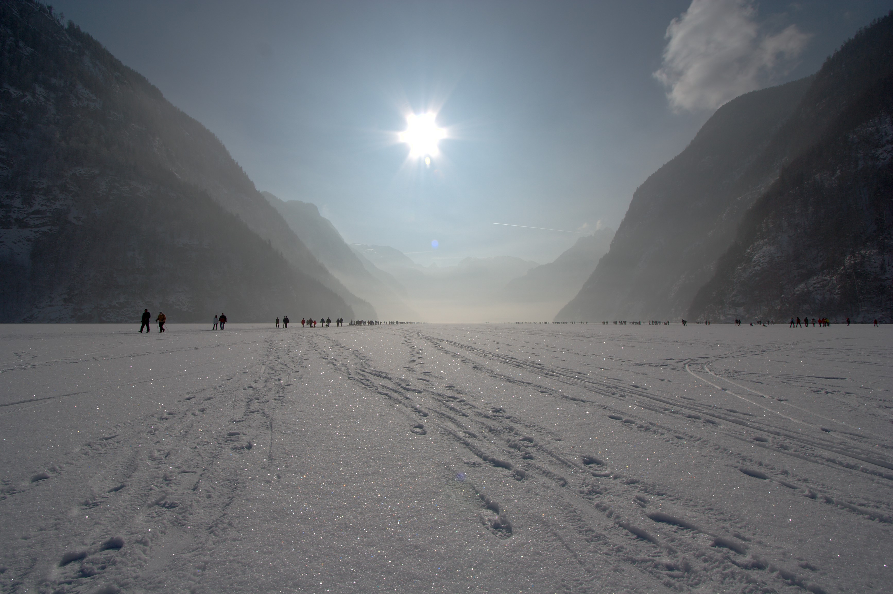 View to south on the frozen lake Königssee